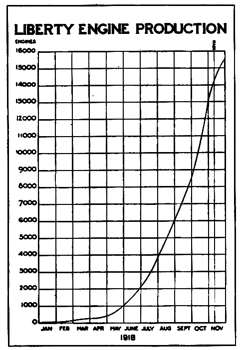 Graph of LibertyEngineProduction Transactions Of The American Institute Of Electrical Engineers January To June 24, 1919 VOL. XXXVIII, PART I